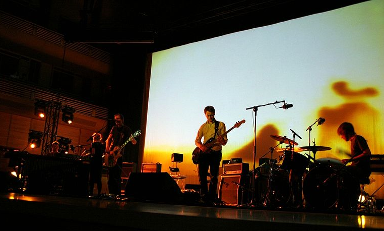 Sigur Ros concert; Strathmore Music Center, Bethesda, MD